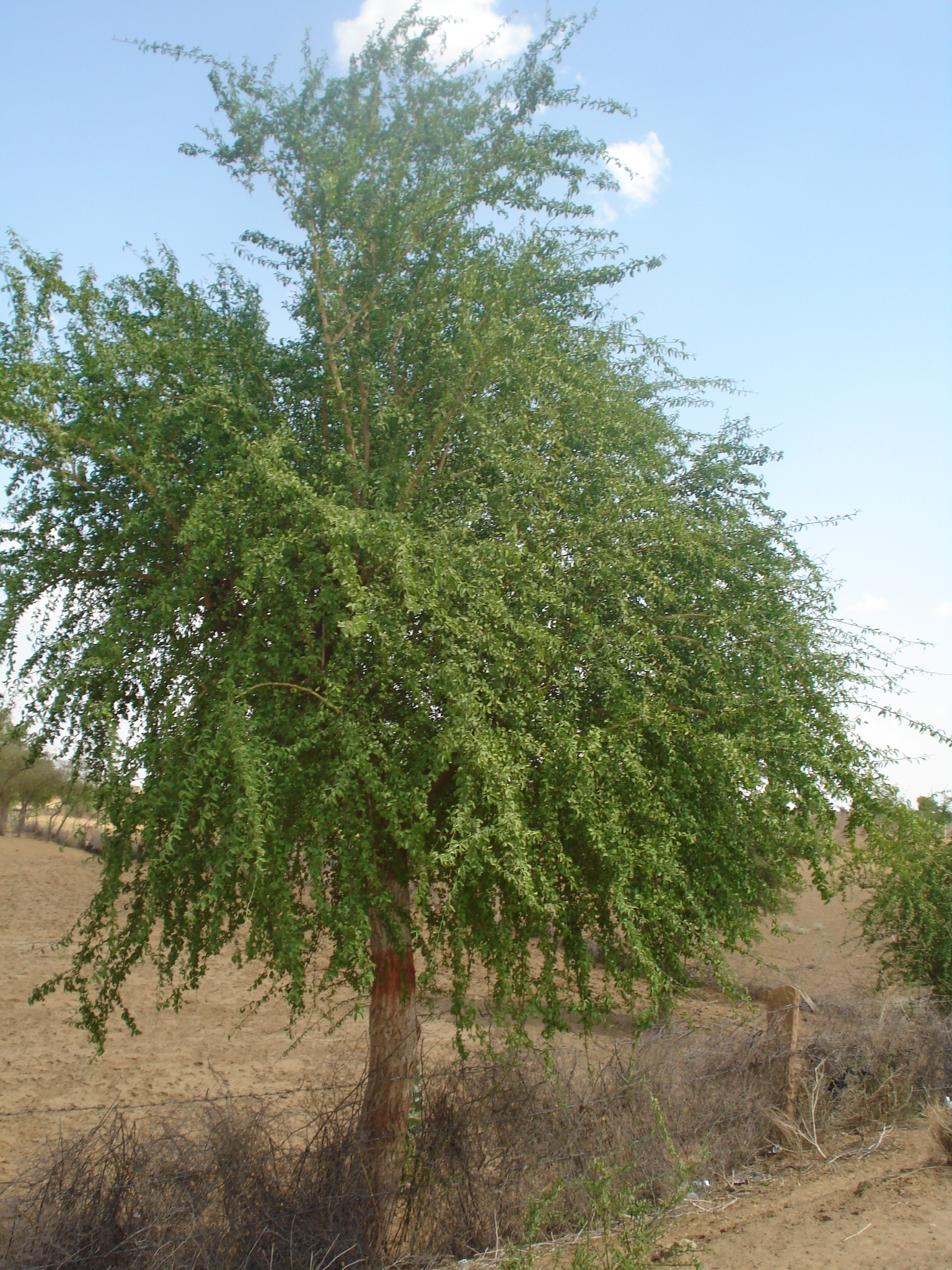 Balanites roxburghii tree located in village Thathawata district Churu in Rajasthan, India